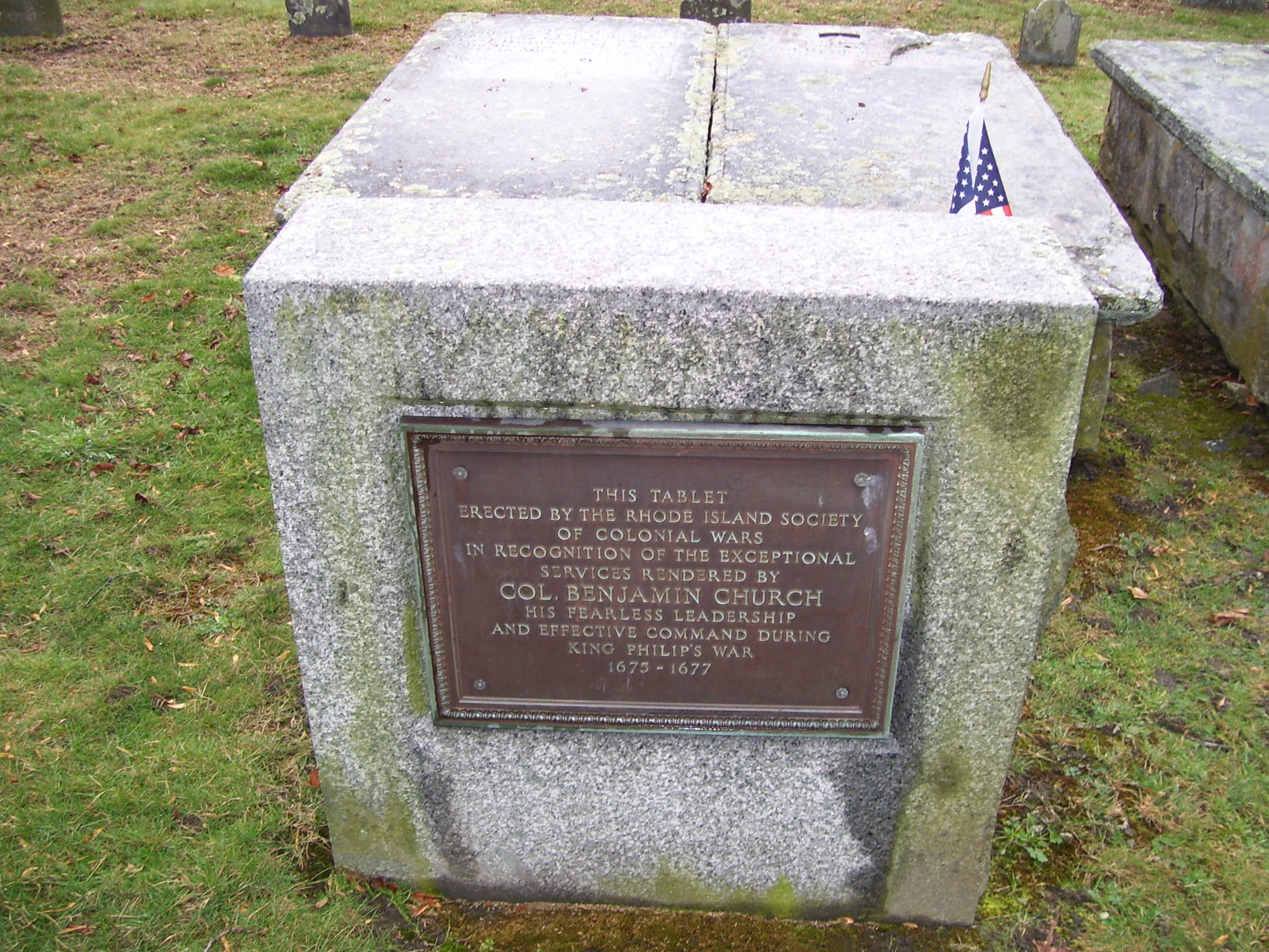 Benjamin Church grave in Little Compton, Rhode Island, USA.